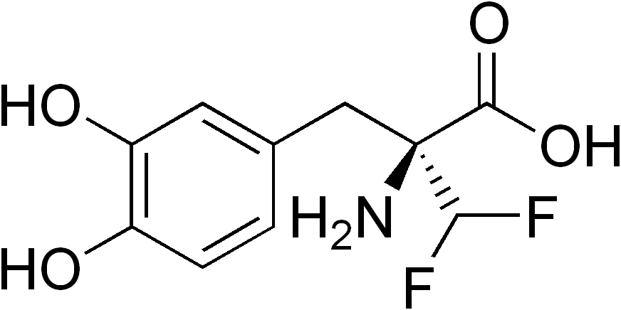 chemical structure of Alpha-difluoromethyl-DOPA